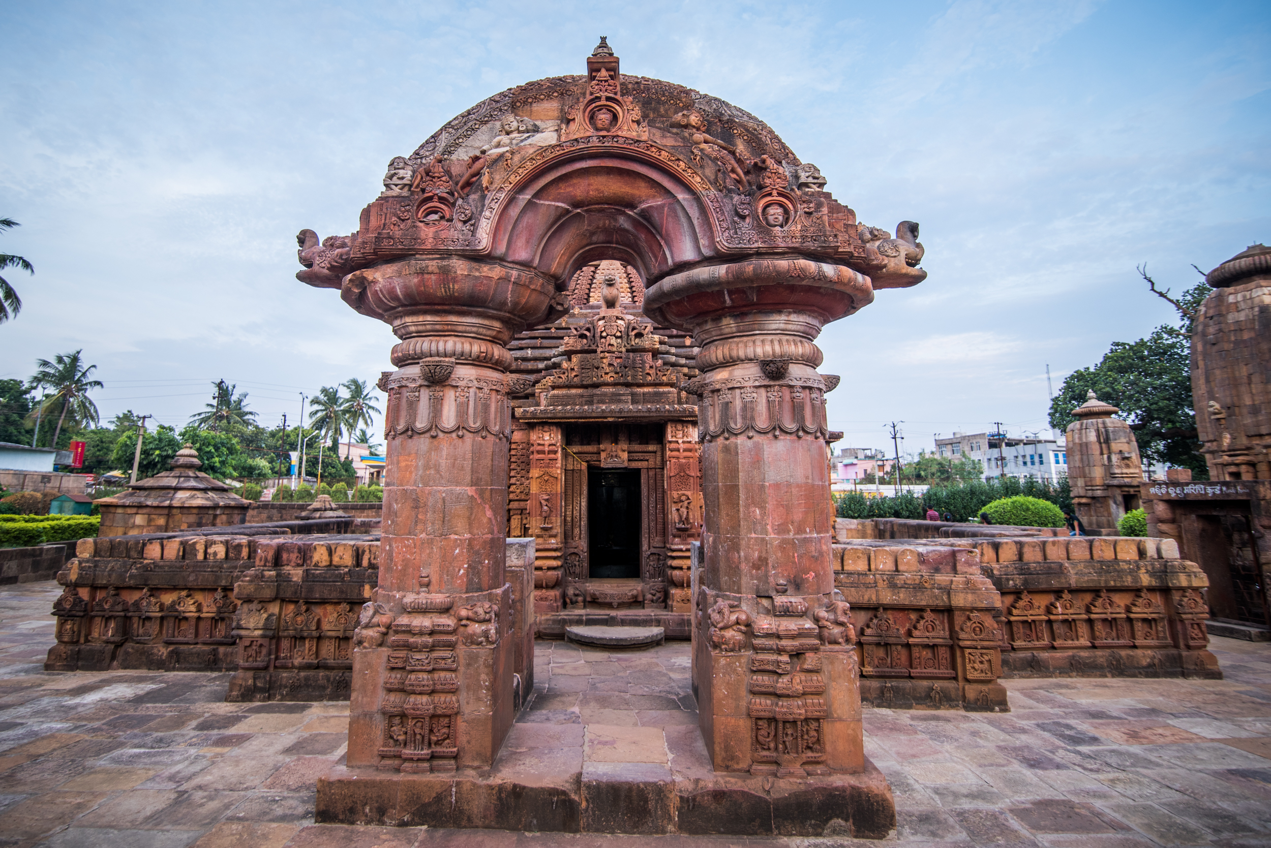 Carvings of Mukteswar Temple.